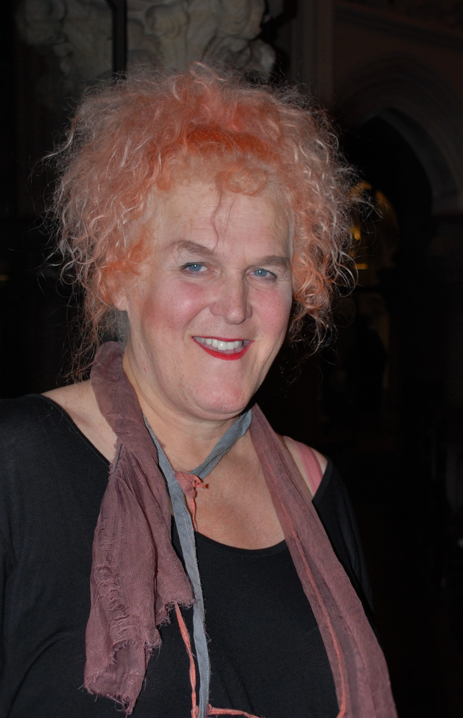 Baby Dee at Taborkirche in Berlin-Kreuzberg, Deutschland